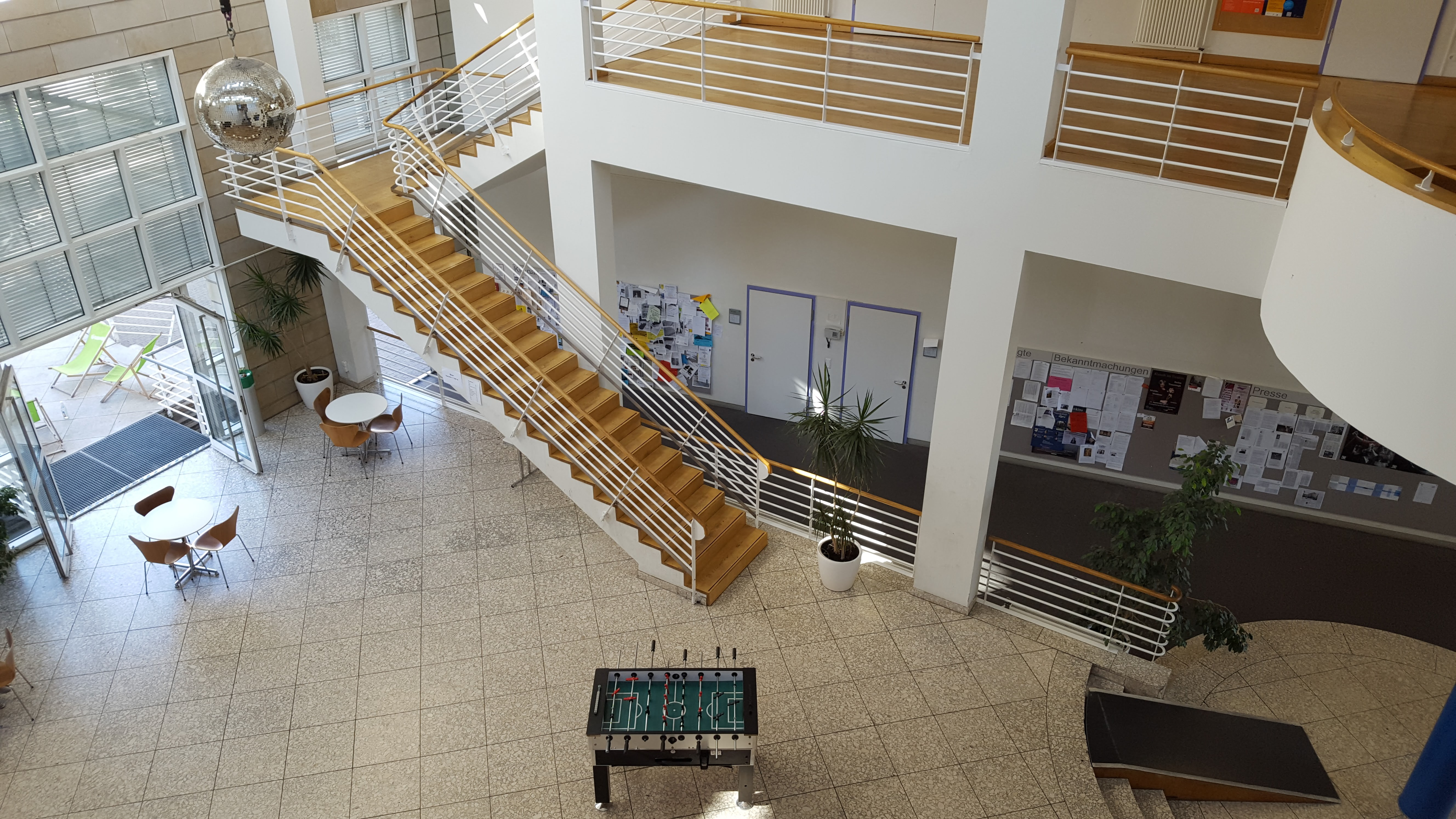 Entrance Hall, Hochschule für Musik und Darstellende Kunst Frankfurt am Main